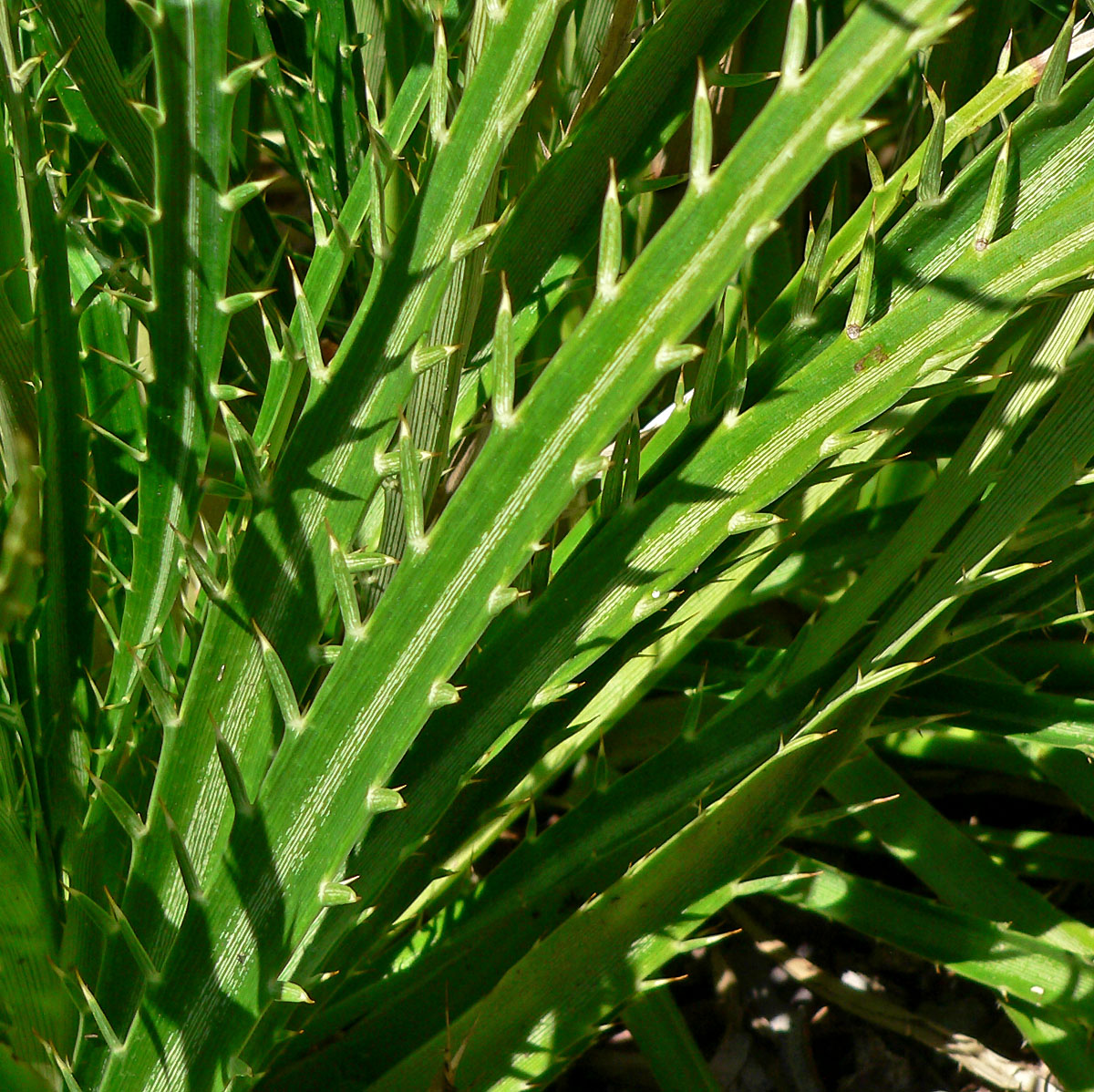 Eryngium alternatum at the University of California Botanical Garden, Berkeley, California